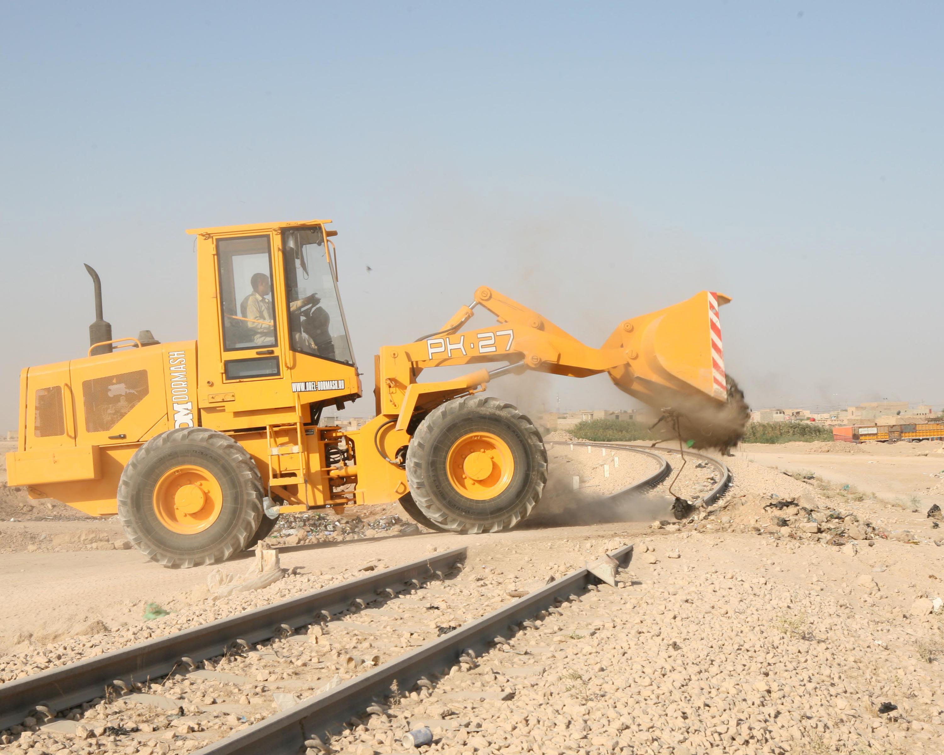 An Iraqi uses a front-end loader to block the entrance of an illegal dumpsite with dirt and trash in the Ta'meem district of Ramadi, Iraq.